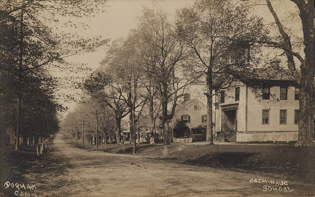 Street scene, including school, in Durham, Connecticut in 1910. The caption at lower right hand corner appears to say "Gochinaug School". Durham was originally called "Coginchaug" by the Indians, and the name may be a variation.